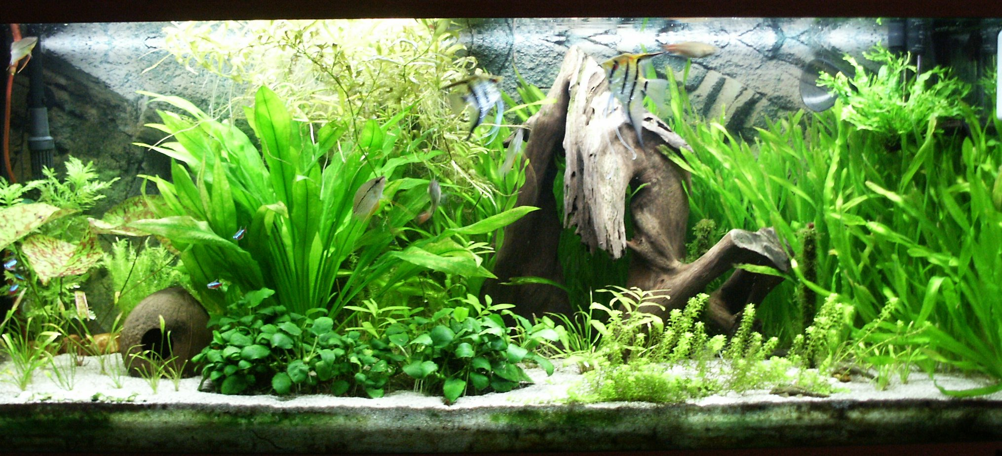 240 litres aquarium with different fishes, plants and a big root. Species= Fishes: Pterophyllum scalare, Trichogaster leeri, Paracheirodon axelrodi. Aquatic plants: Echinodorus, Anubias barteri, Hygrophyla difformis, Microsorum pteropus "windelow", Vallisneria sp, etc.